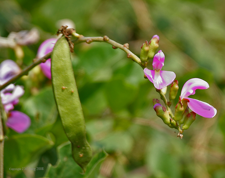 Bay bean or Sagar-abai Canavalia lineata in Kawal Wildlife Sanctuary, Andhra Pradesh, India.